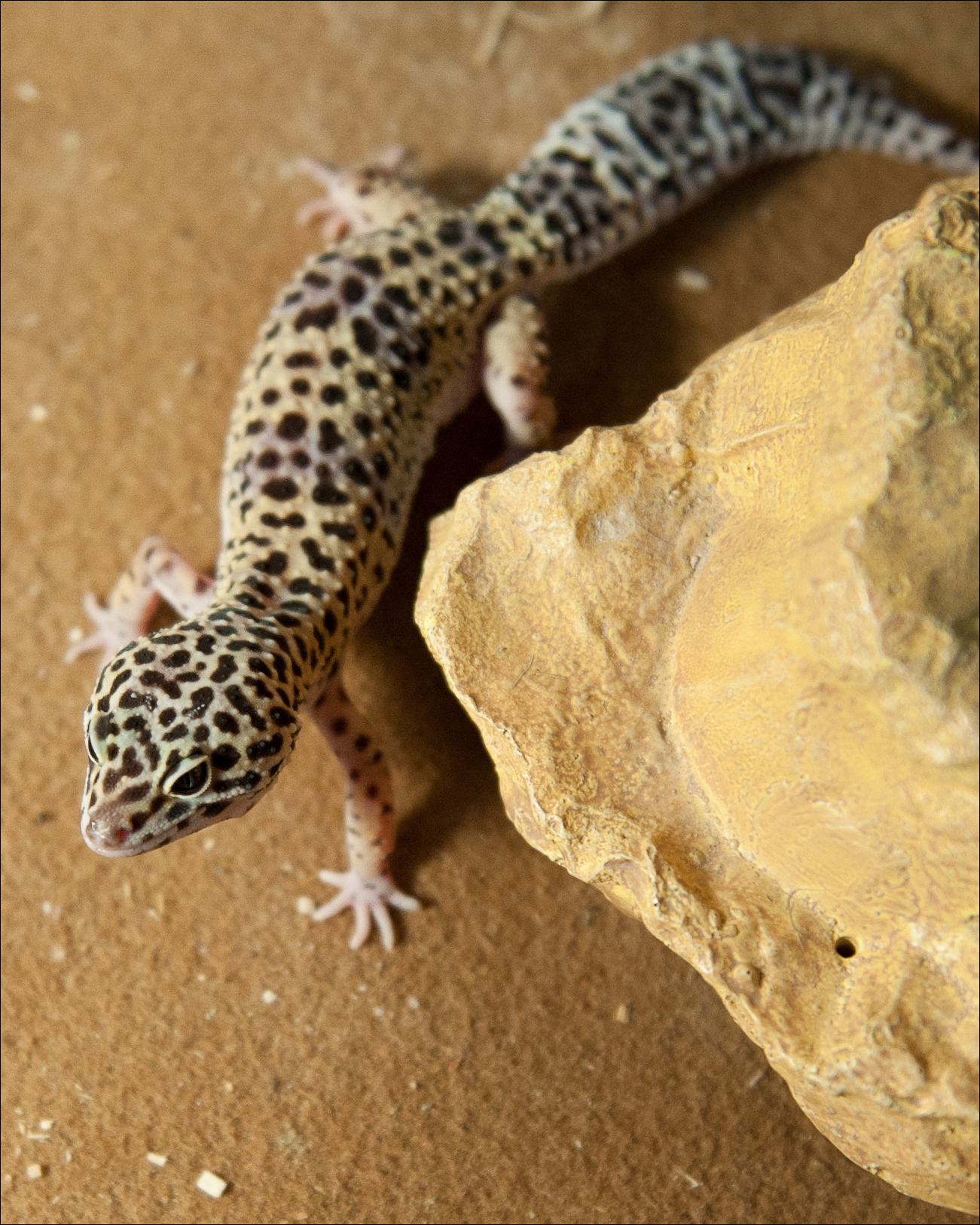 Speck the presumed female Afghan Leopard Gecko